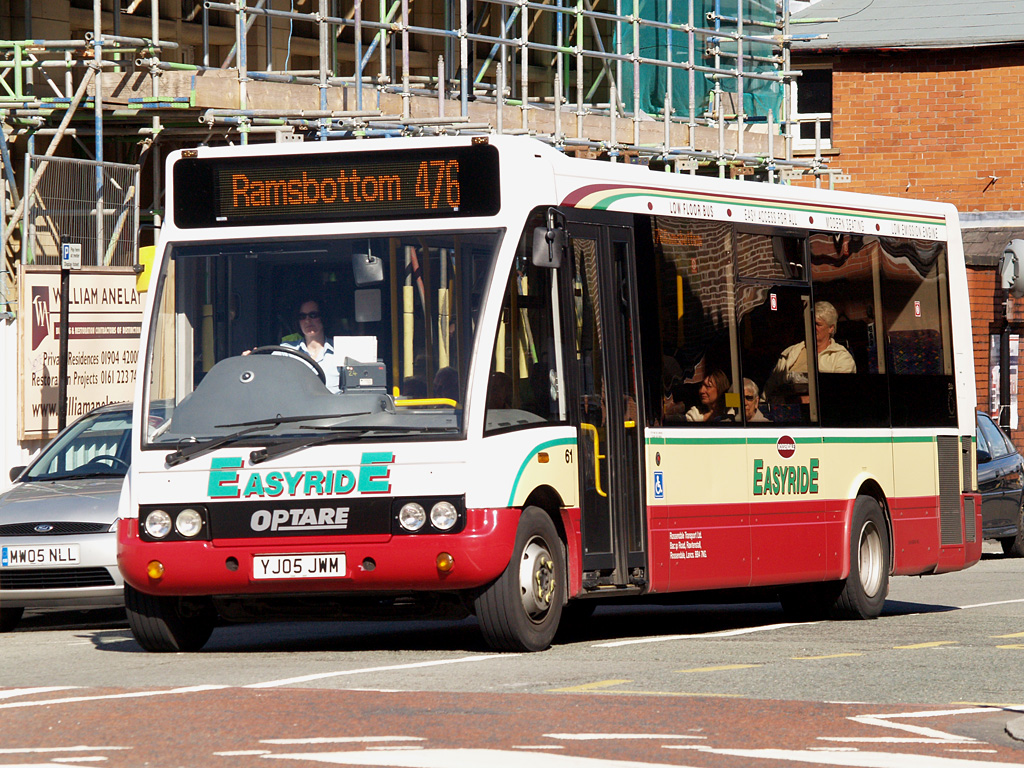 ssendale Transport Limited 61 YJ05 JWM, an Optare ‘Solo’ M880 built 2005 with an Optare ‘Slimline Solo’ B23F+23 body on Moss Street, Bury at the junction with Silver Street with the 16:33 Norden (Mill Bridge) to Ramsbottom (Market Place) via Fairfield, Topping Fold, Bury and Greenmount 476 service. Friday 20th June 2008